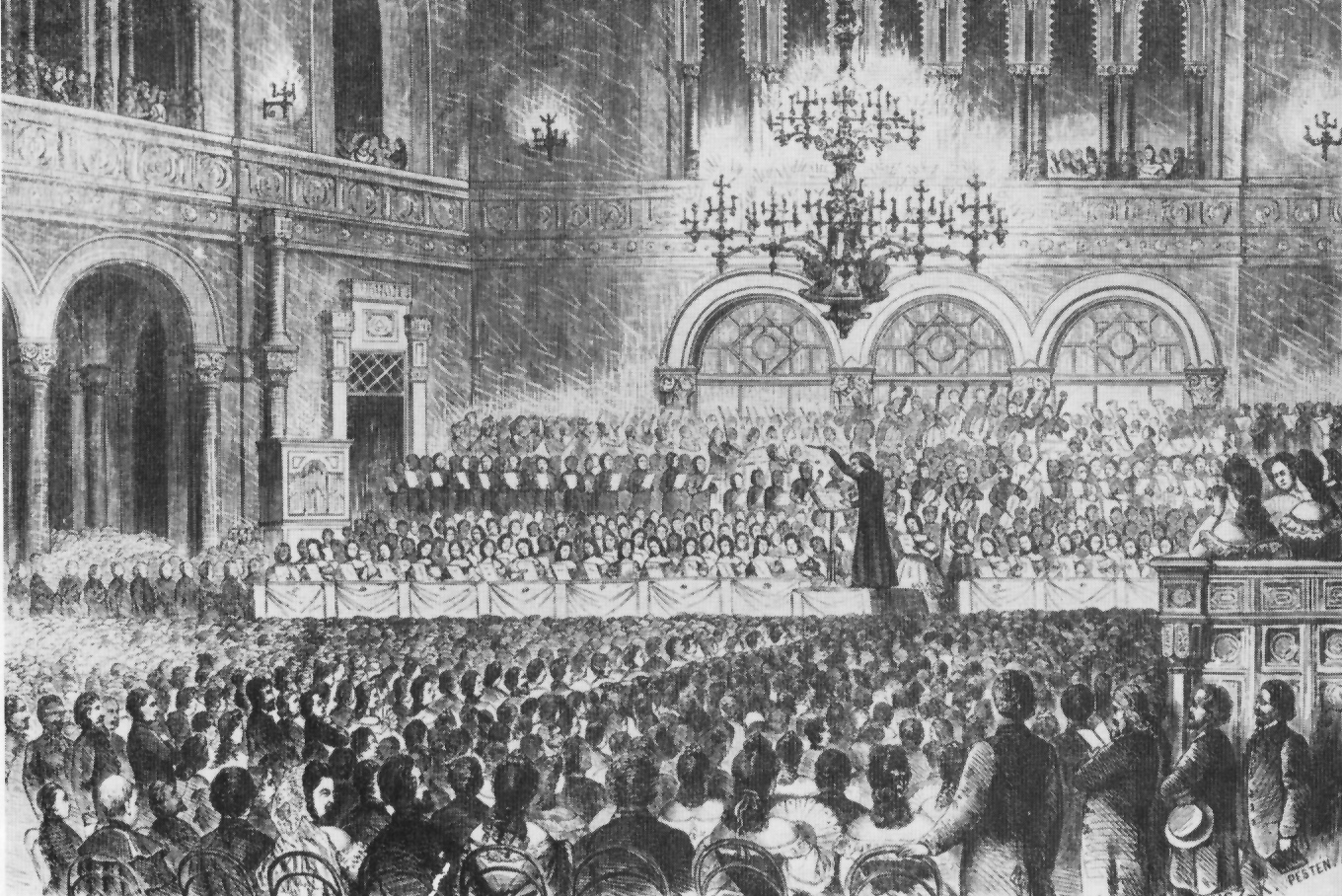 Franz Liszt's fundraising concert for the flood victims of Pest in 1839, where he was the conductor of the orchestra. Vigadó Concert Hall, Pest.